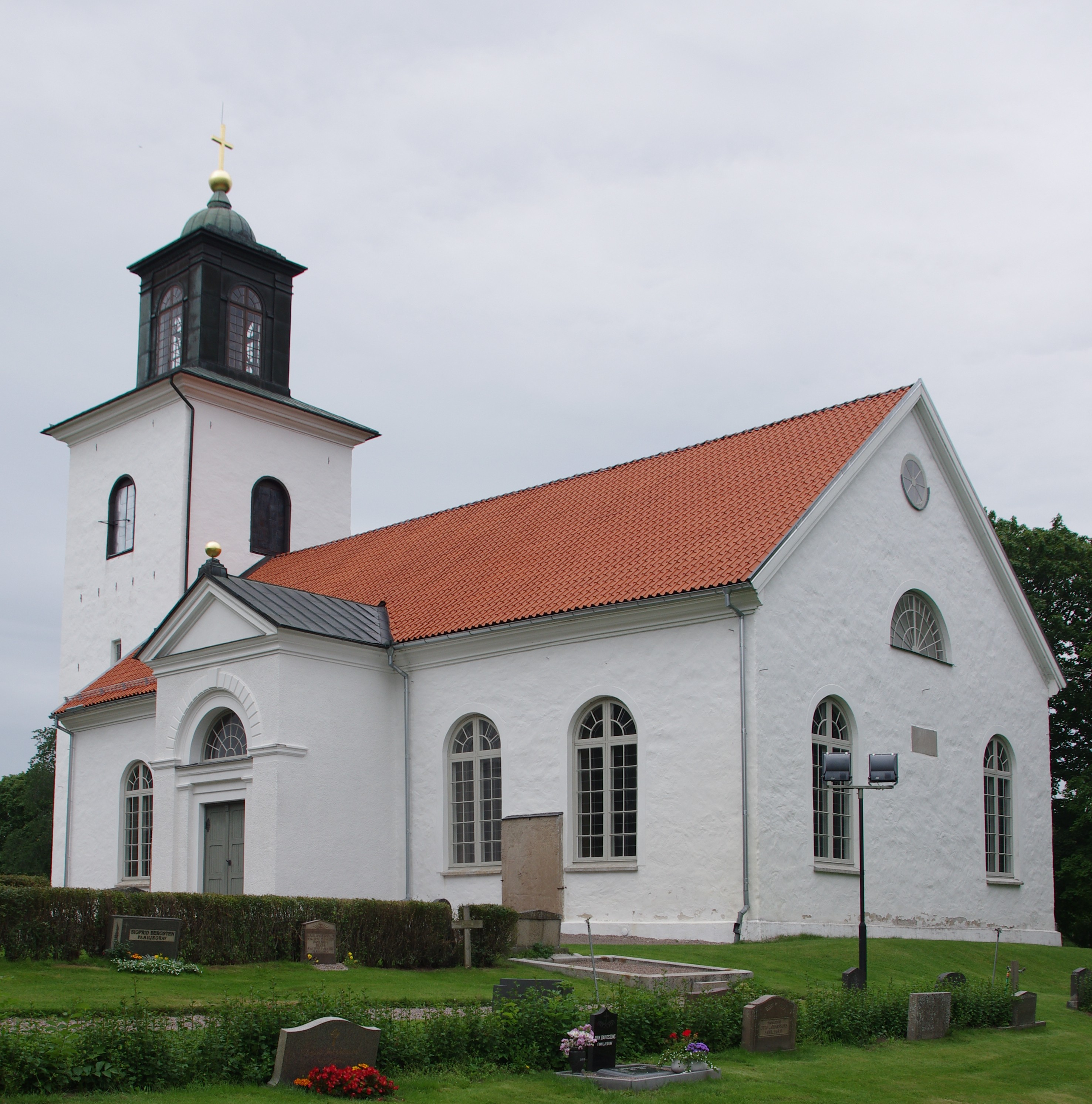 Sandhems kyrka (swedish: church of Sandhem), Västergötland, Sweden.